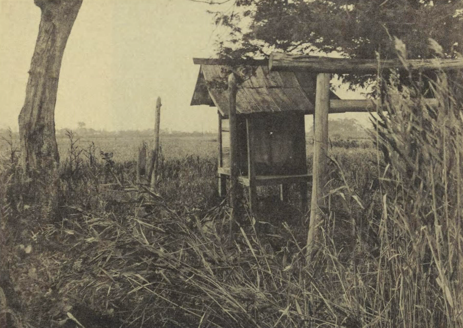 Fujishima Shrine (藤嶋/藤島社 Fujishima-sha or 藤嶋/藤島大明神 Fujishima Daimyōjin), one of the auxiliary shrines of the Upper Shrine of Suwa, as it appeared during the early 20th century.